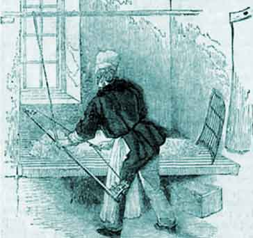 Bowing for hat-making - engraving